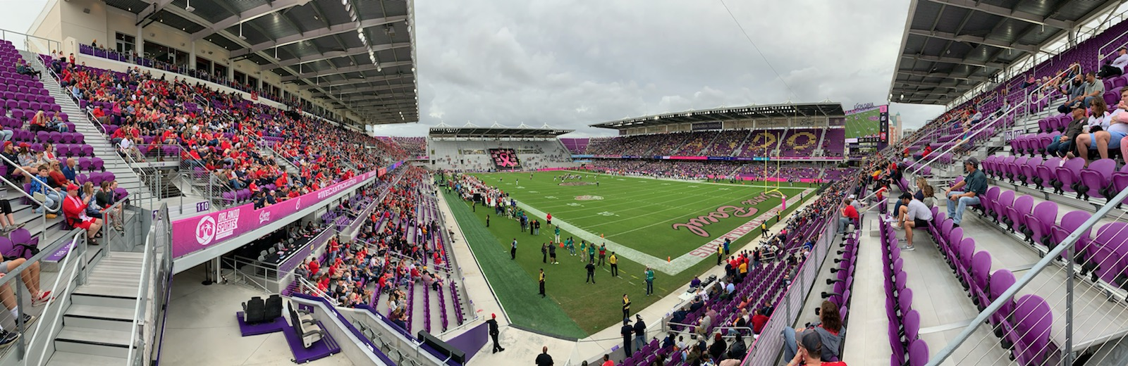 2019 Cure Bowl at Exploria Stadium Final Score: Liberty 23, Georgia Southern 16